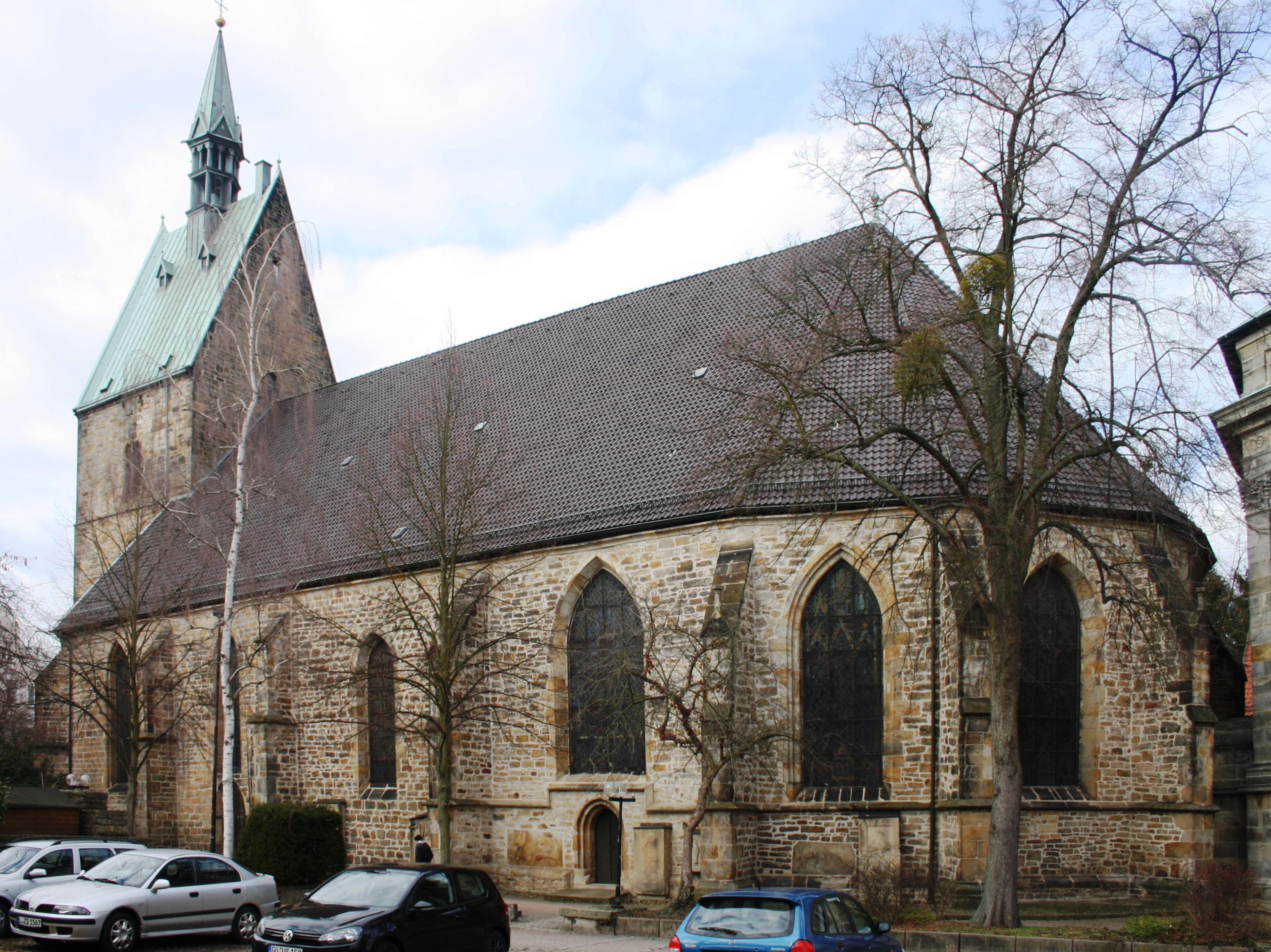 Saint Martin in Stadthagen, Germany. Exterior from South-East.